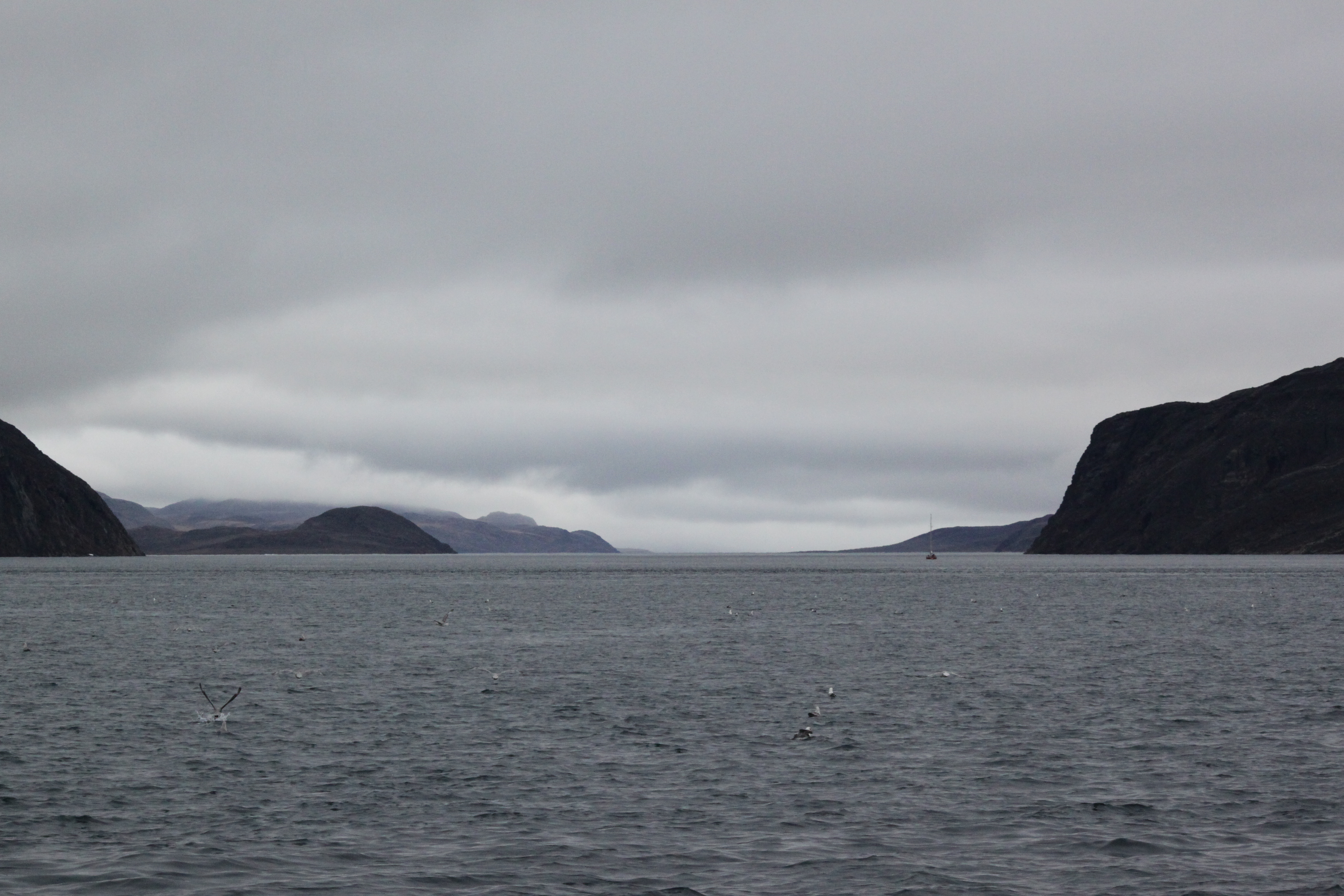 Entering Bellot Strait from the western end, taken from a sailboat transiting the trait. Another sailboat, "Sol" is just visible ahead.